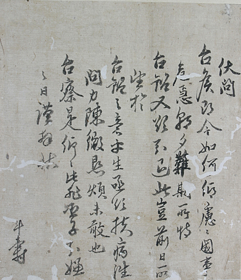 Letter of Yun Doo-su, Korean Joseon Joseon Dynasty's politicians